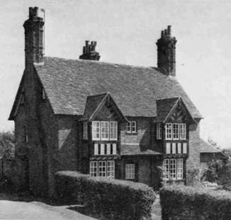 Cottages at Mentmore circa 1950 Old photograph found in an album belonging to the uploader. The photograph was probably taken by a member of the uploader's family who is now dead. The uploader releases intothe public domain - The building in this photo is not as suggested one of the houses built by the Rothchild family. It is in fact the old Ale House that dates from the 16th Century. It was lived in by the Varney family whos graves can be found in the local Church yard. They are shown in records held in the records office in Aylesbury as paying 2 shillings a year in rent to the church and they provided ale and meat from their pigs to the local community.